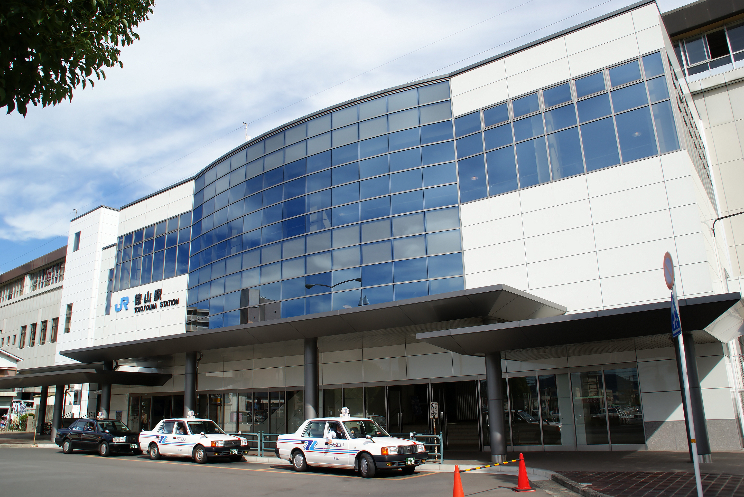 West Japan Railway, Tokuyama Station.(Shunan City, Yamaguchi Prefecture, Japan)